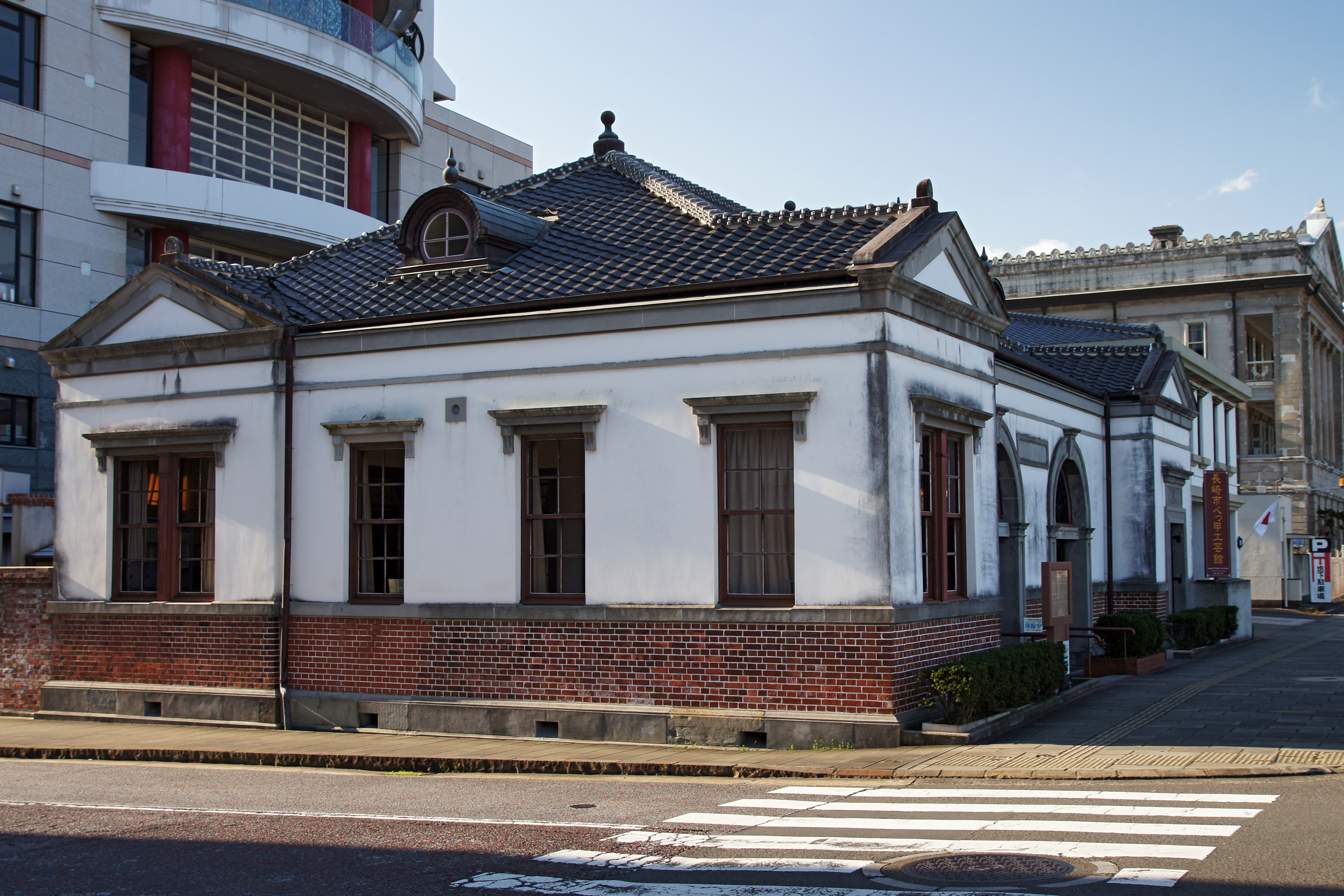 Former Nagasaki Customs Sagarimastu branch in Nagasaki, Nagasaki prefecture, Japan